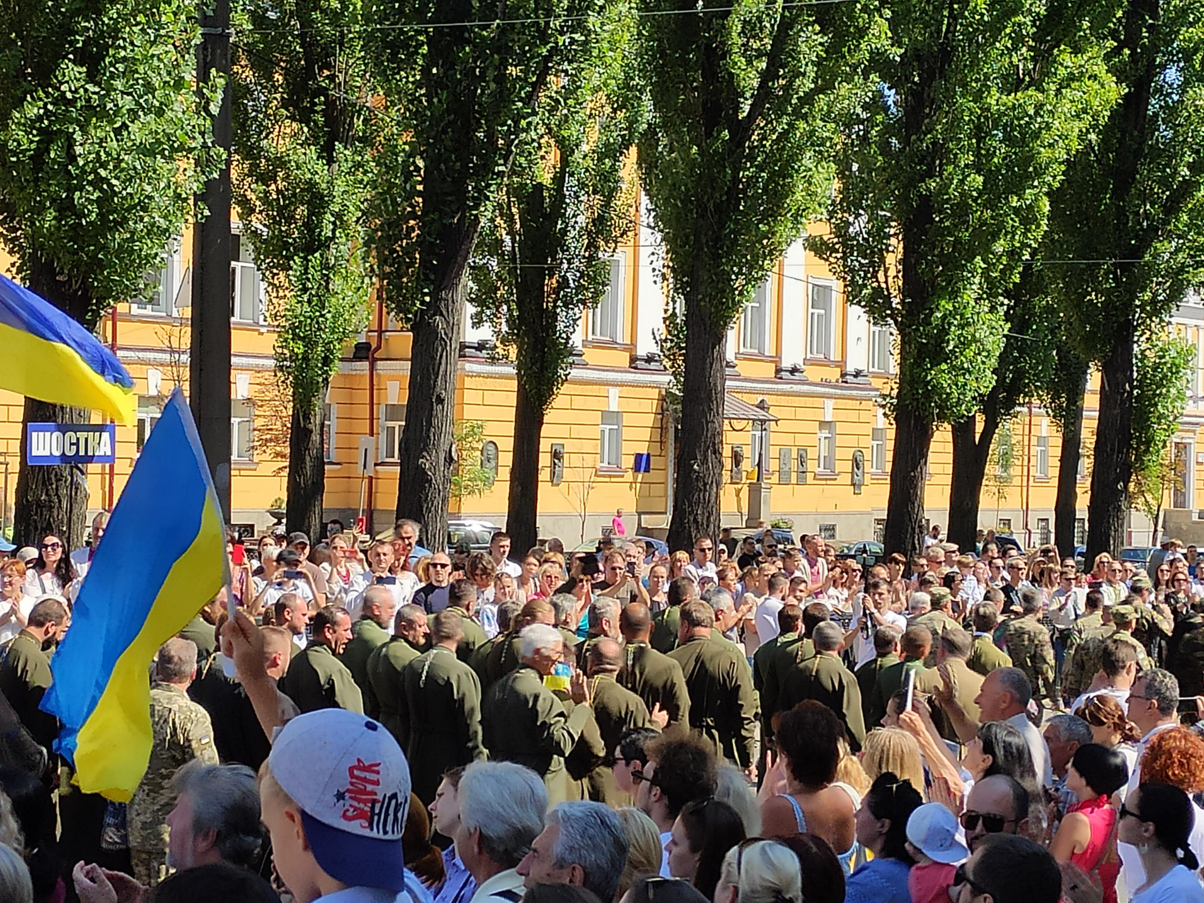 Chaplains